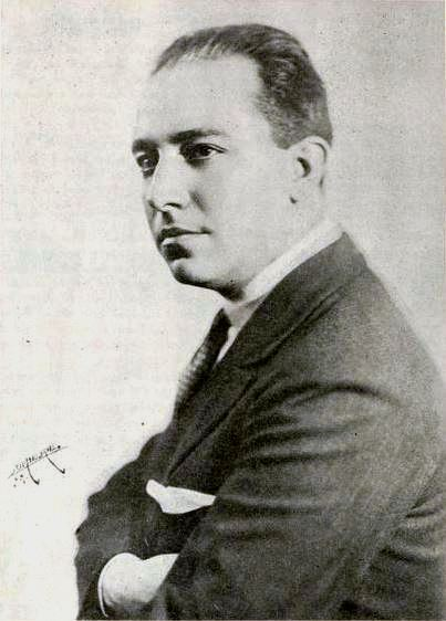 Director George Archainbaud on page 12 of the January 2, 1921 Film Daily